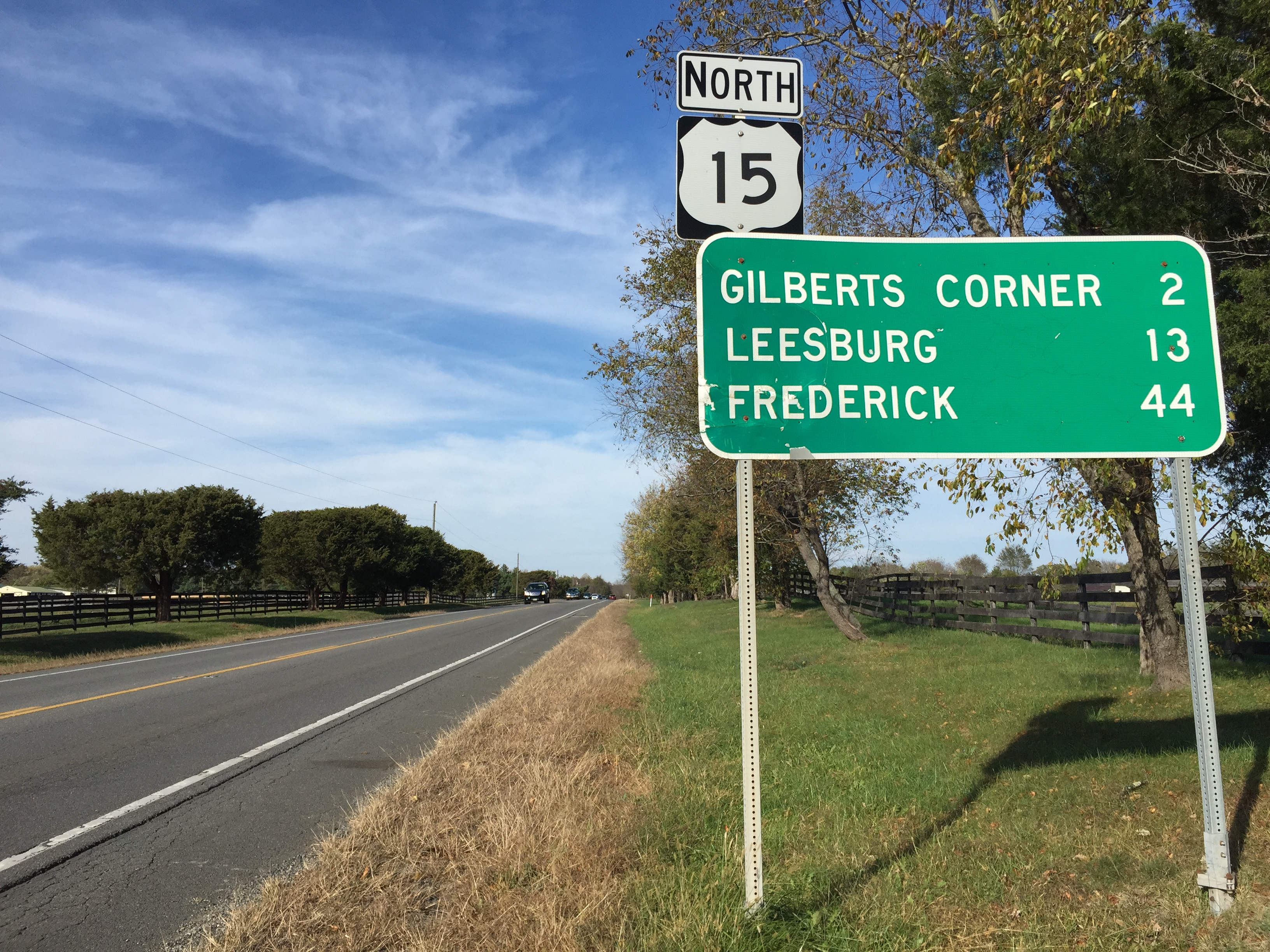 View north along U.S. Route 15 (James Monroe Highway) between New Road (Virginia State Secondary Route 600) and Old Carolina Road (Virginia State Secondary Route 615) in southern Loudoun County, Virginia